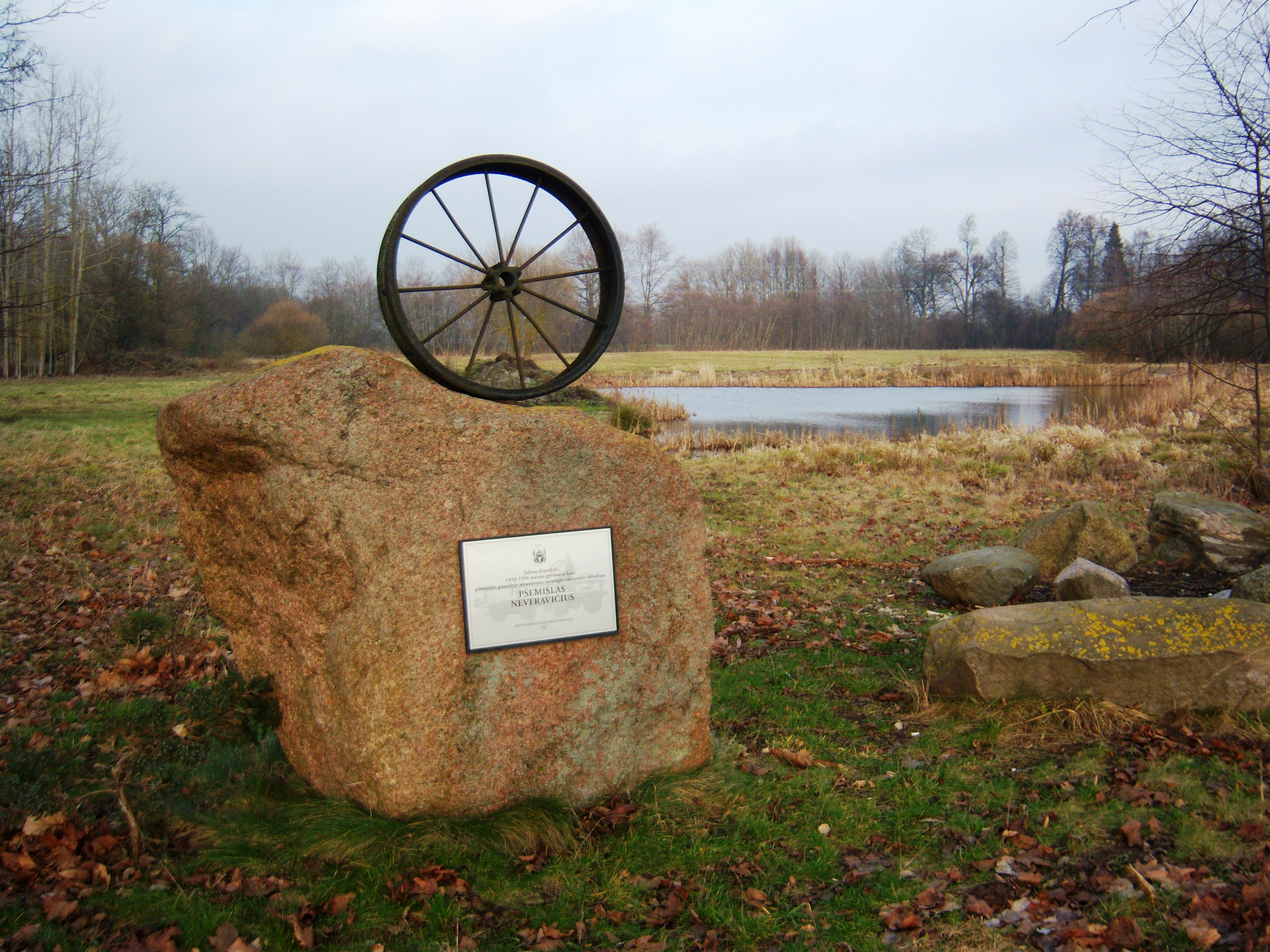 Stone in memory of inventor Pšemislas (Pšemislovas) Neveravičius, Raseiniai district, Lithuania